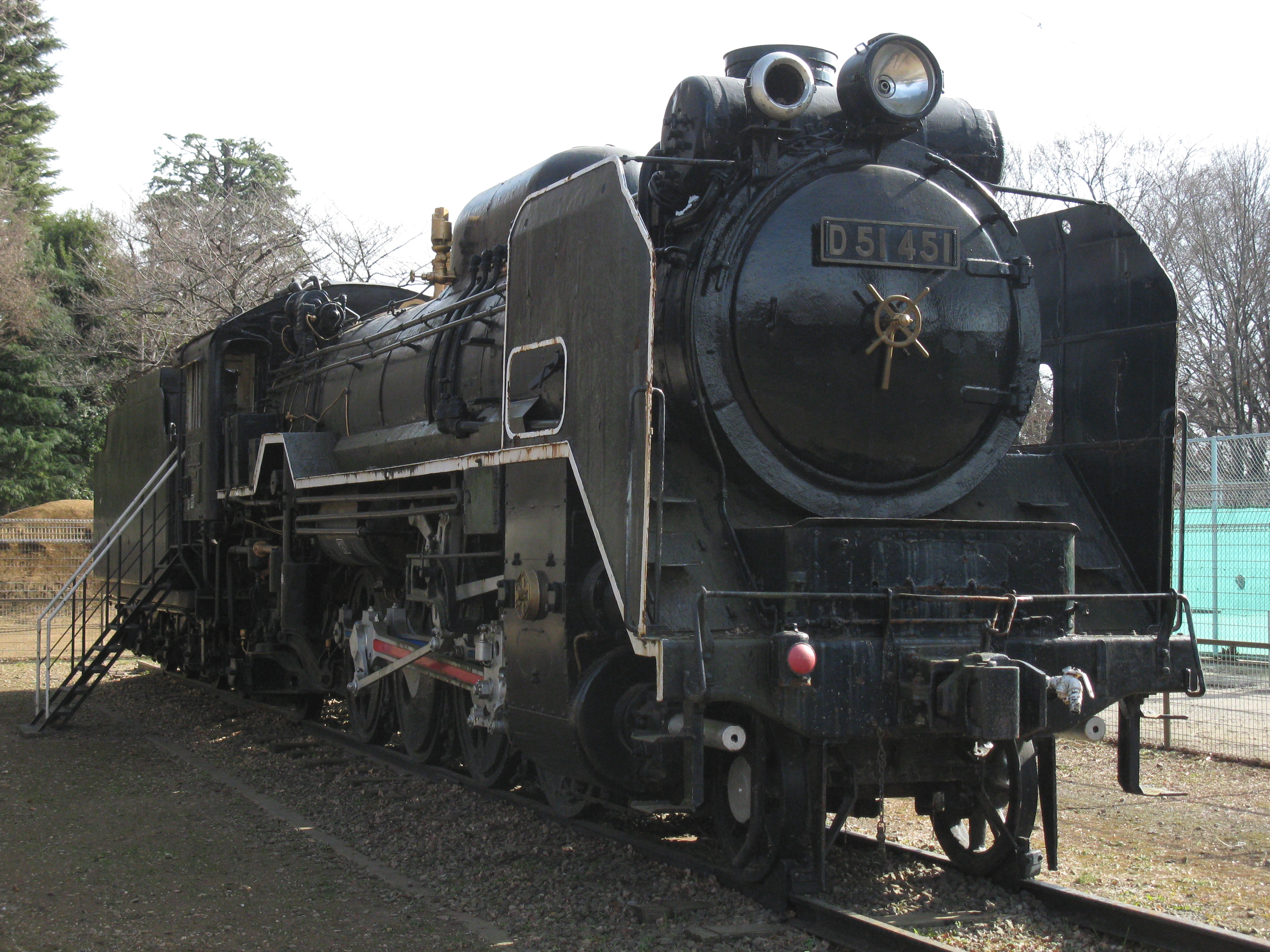 JNR Steam Locomotive Class D51 no.451 (Akishima, Tokyo, Japan)